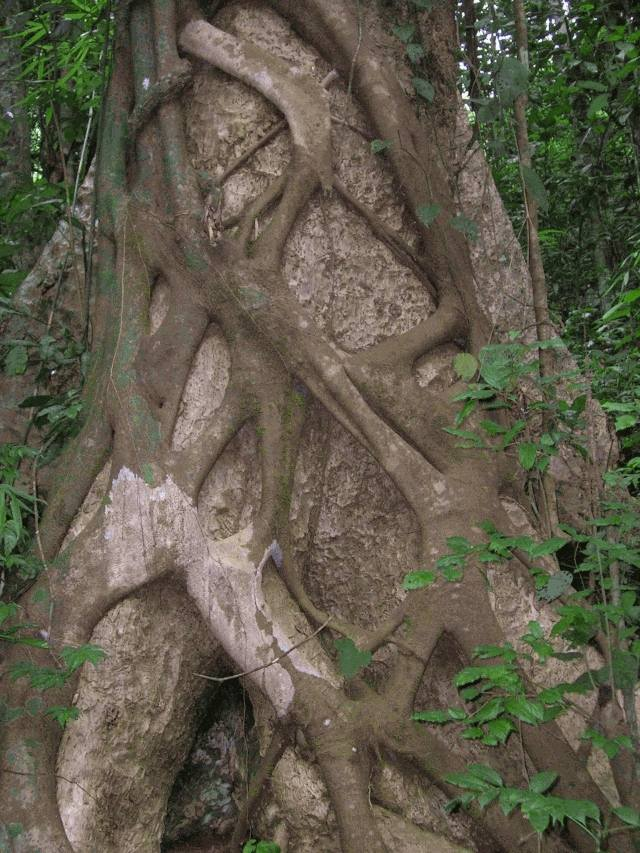 Strangler fig. Ficus sp. Wynaad, Kerala, India. Photograph by L. Shyamal. Nov, 2005